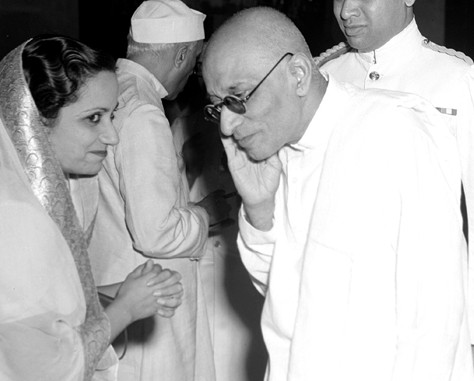 C. Rajagopalachari, and others photographed at a Government House reception held on September 29, 1949 as part of Dussehra celebrations.